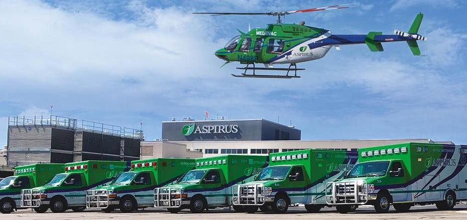 Aspirus